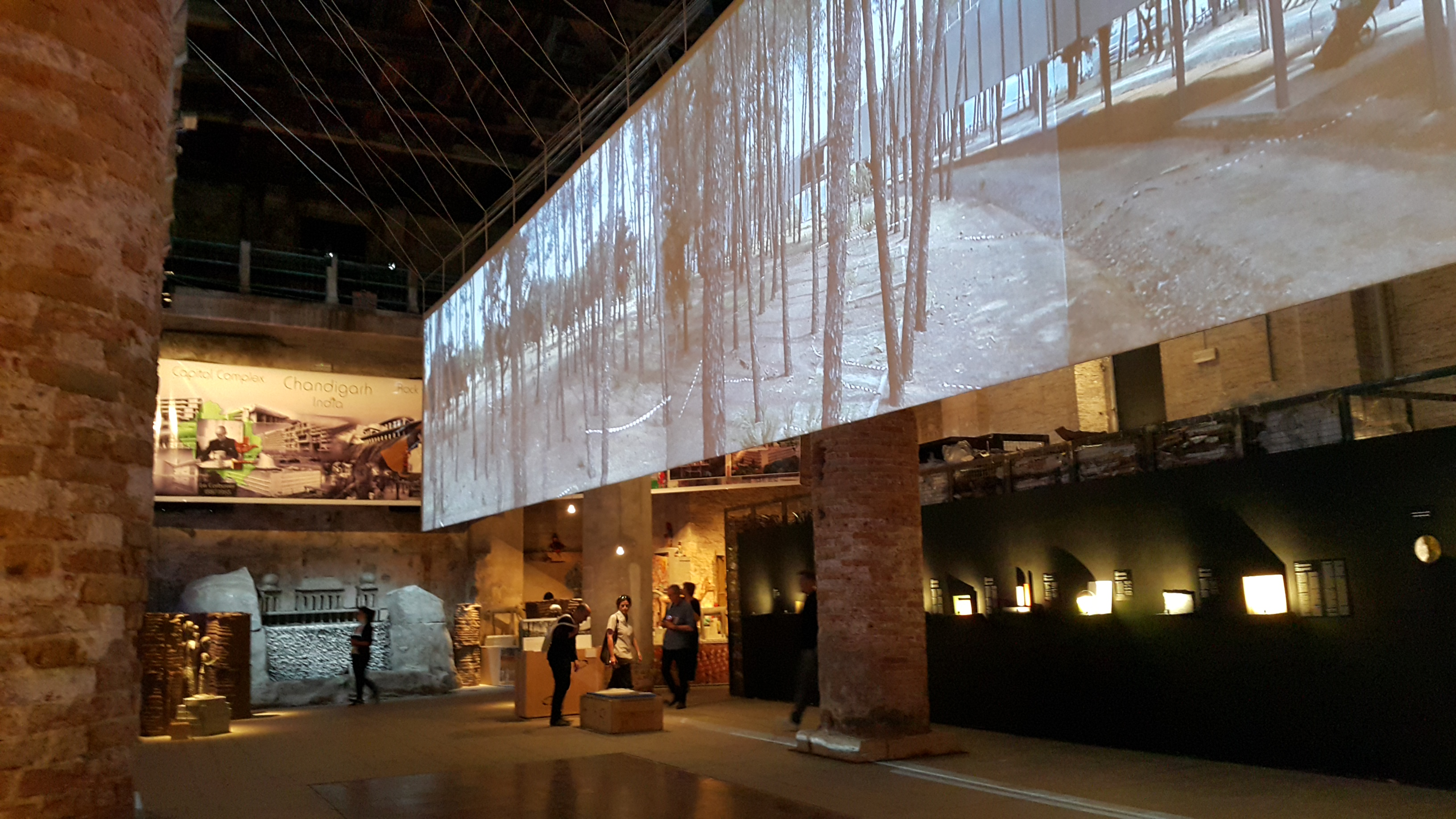 15th Venice Architecture Biennale, Reporting from the Front - curated by Alejandro Aravena, view from the main exhibition